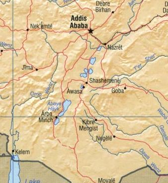 Shaded relief map of Ethiopia.